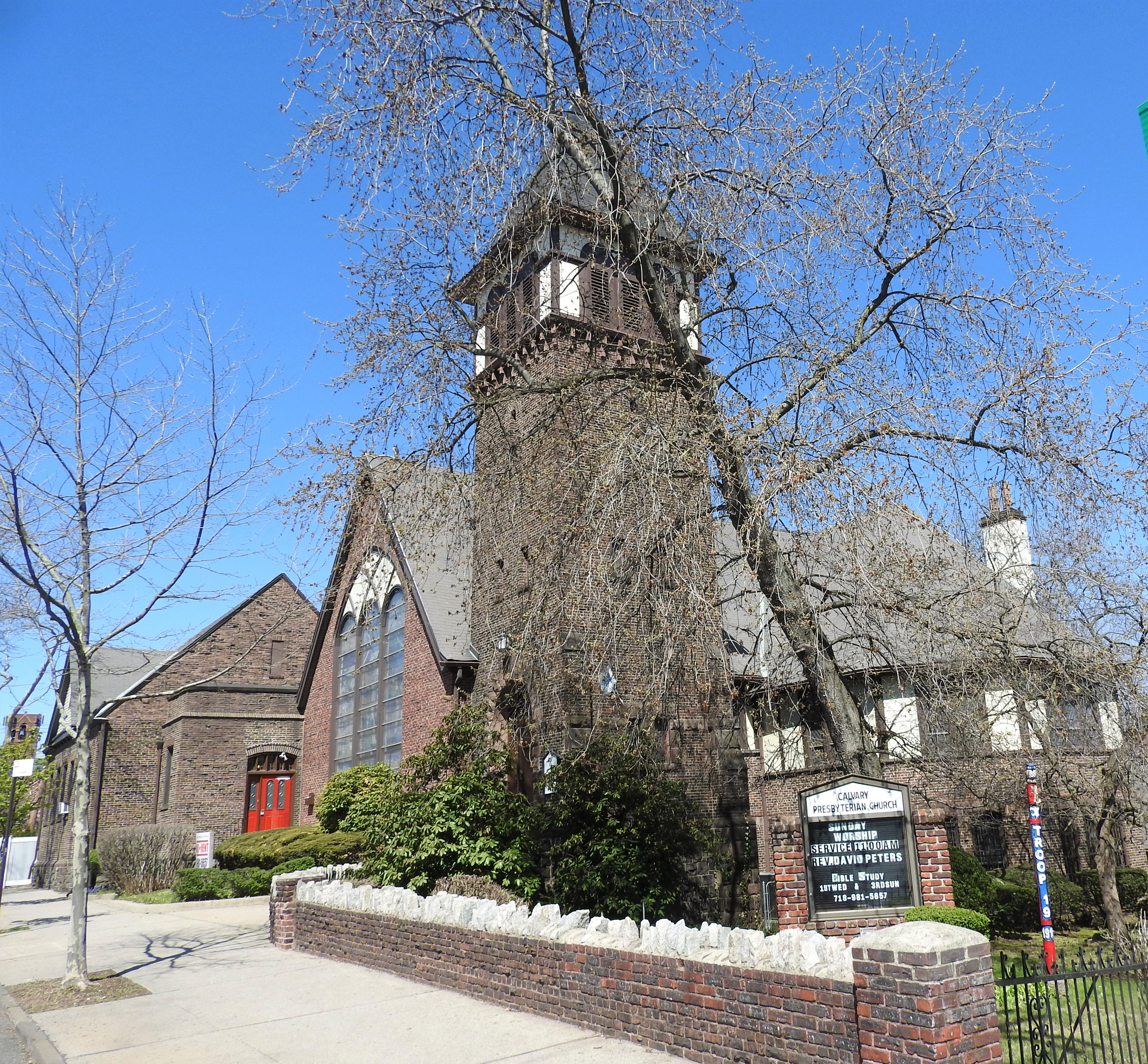 Church on North Shore